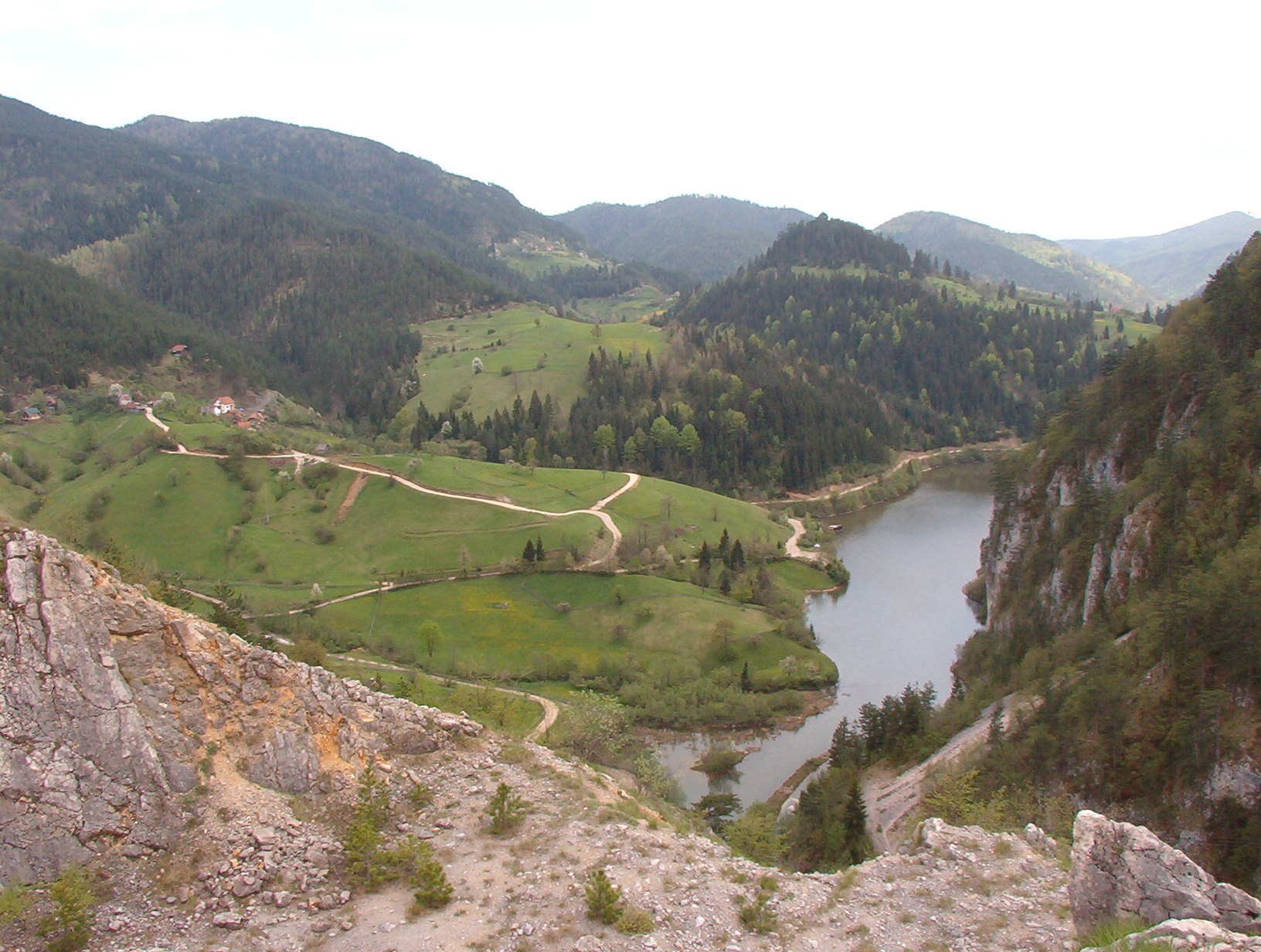 Perućac Lake, on Tara Mountain, Serbia